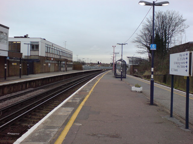 Platforms at Gillingham Station (2). Photo taken from the same place as 667799 Looking coastbound, on the Londonbound platforms. Trains from platform 3 (far left) usually go to Ramsgate or Dover. The building on the left is a train crew depot.